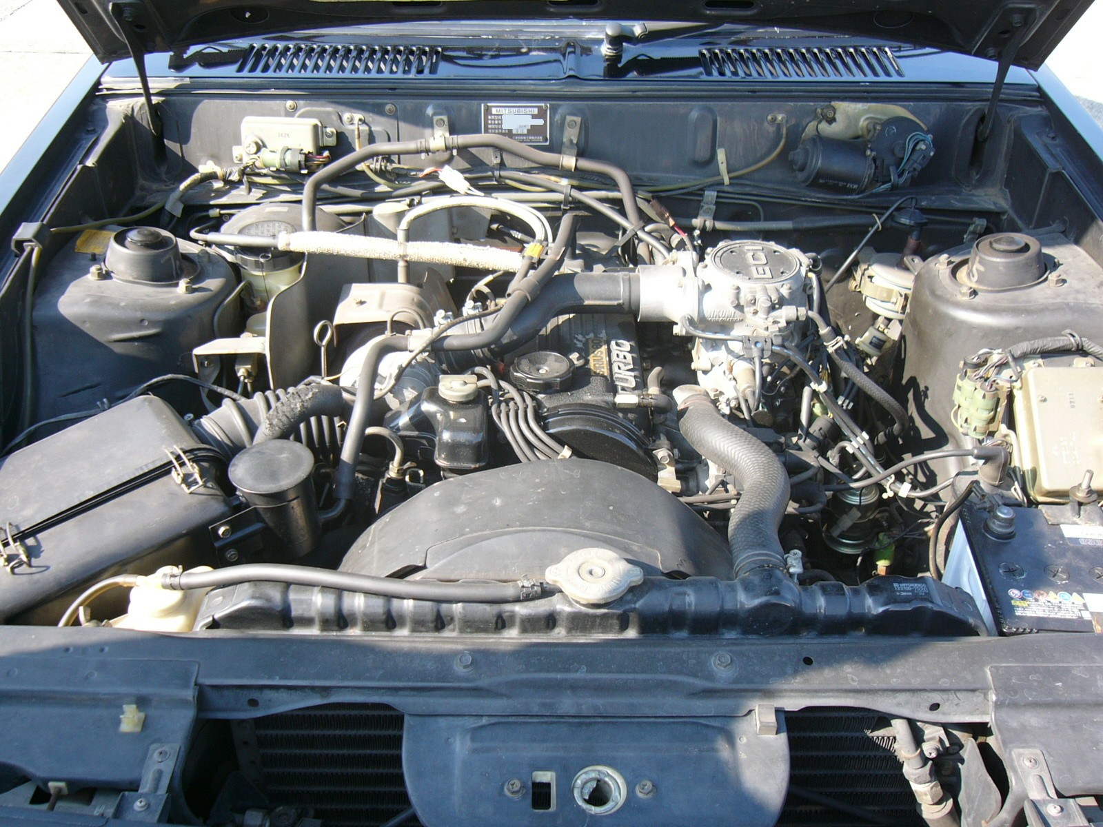 The second generation Mitsubishi Galant Λ G63B Turbo engine (A164A). Taken at 2013 MMF Okazaki.